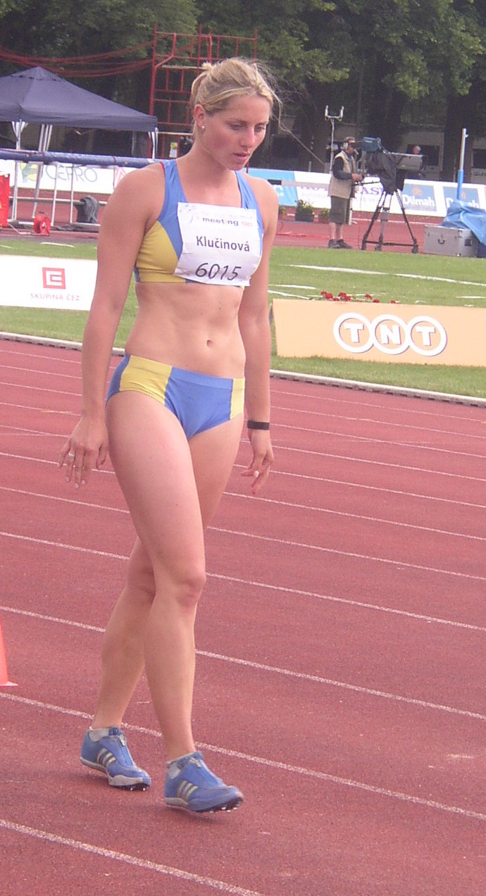 Athlete Eliška Klučinová of the Czech Republic prepares for her attempt in long jump during women's heptathlon at 4th edition of the TNT - Fortuna Meeting (IAAF World Combined Events Challenge Meeting, Sletiště Stadium, Kladno, Czech Republic, 16 June 2010, 11:37).